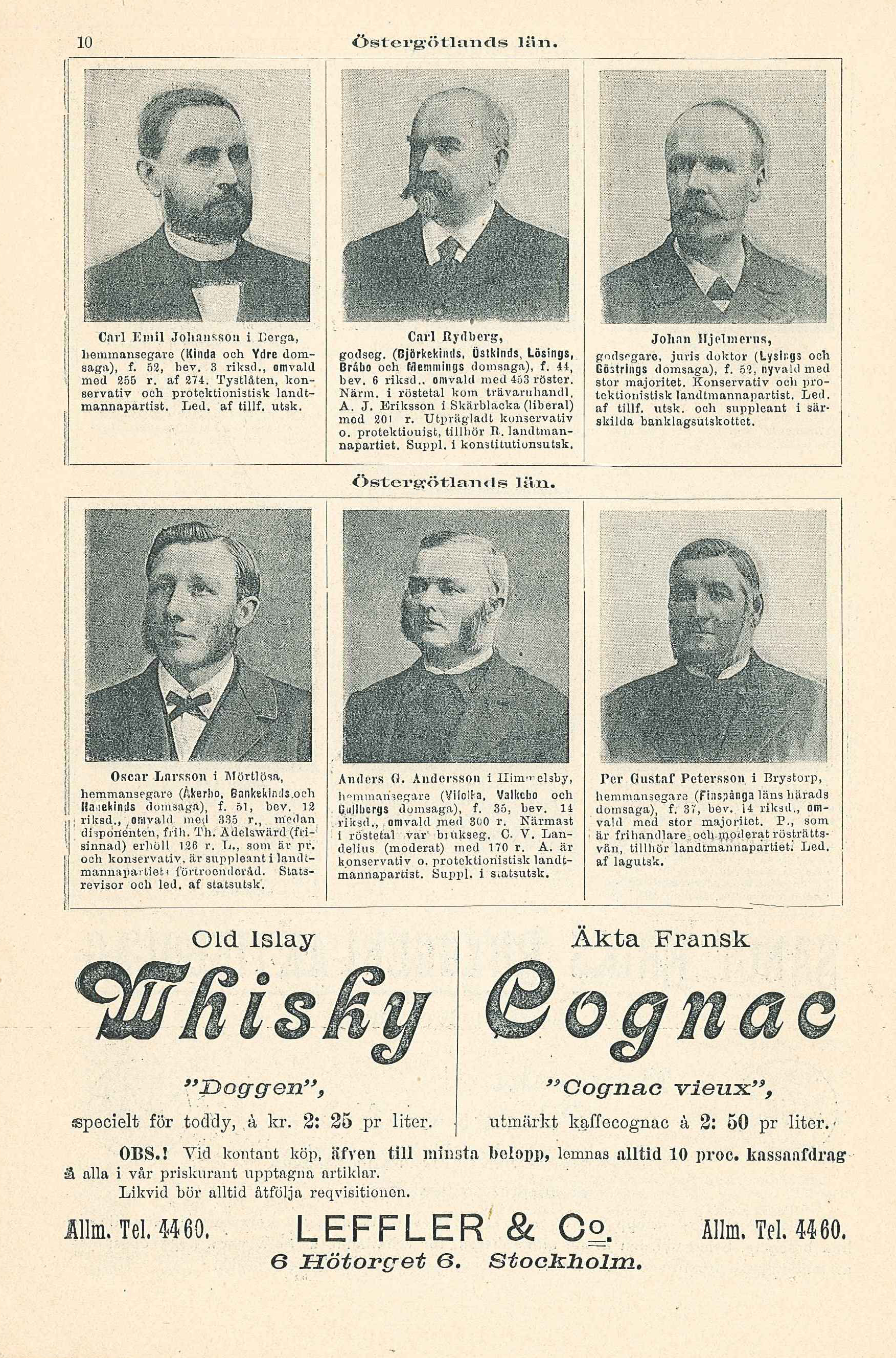 Page 10 of an album featuring portraits of all the members of the second chamber of the Swedish parliament (Sveriges riksdag) elected in 1897. This page featuring parts of the members representing the county of Östergötland.